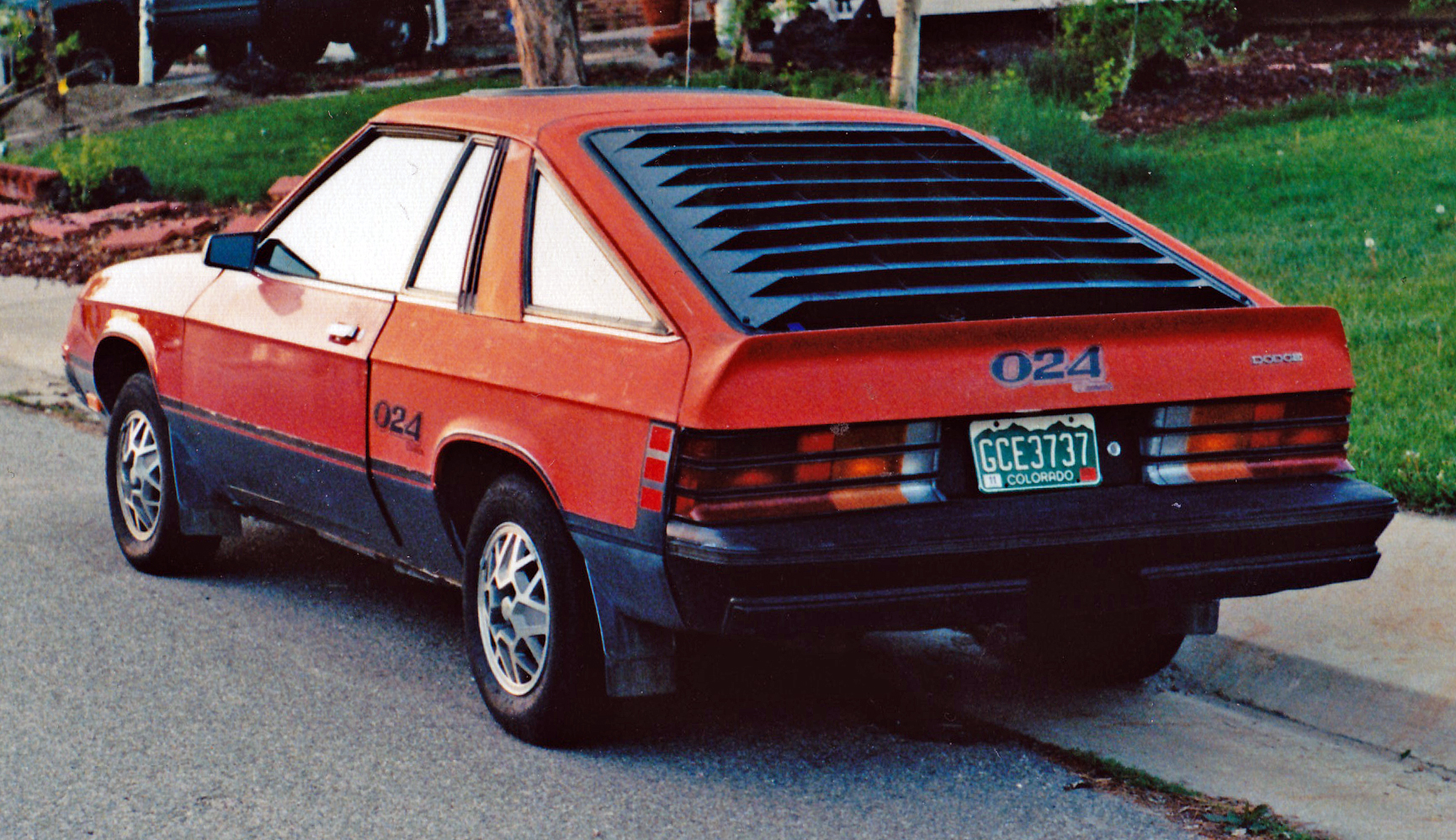 A Dodge Omni 024 in somewhat less than concours condition.